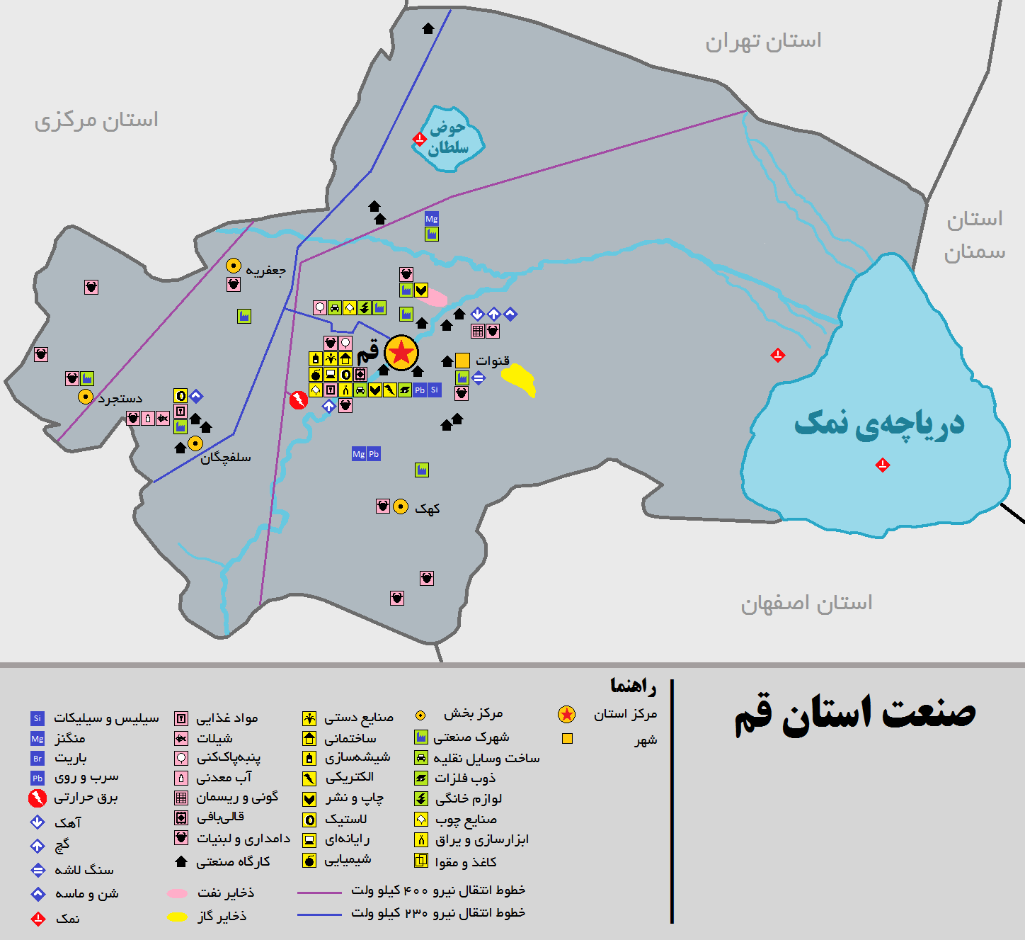 Qom Province Industries & Mines Map